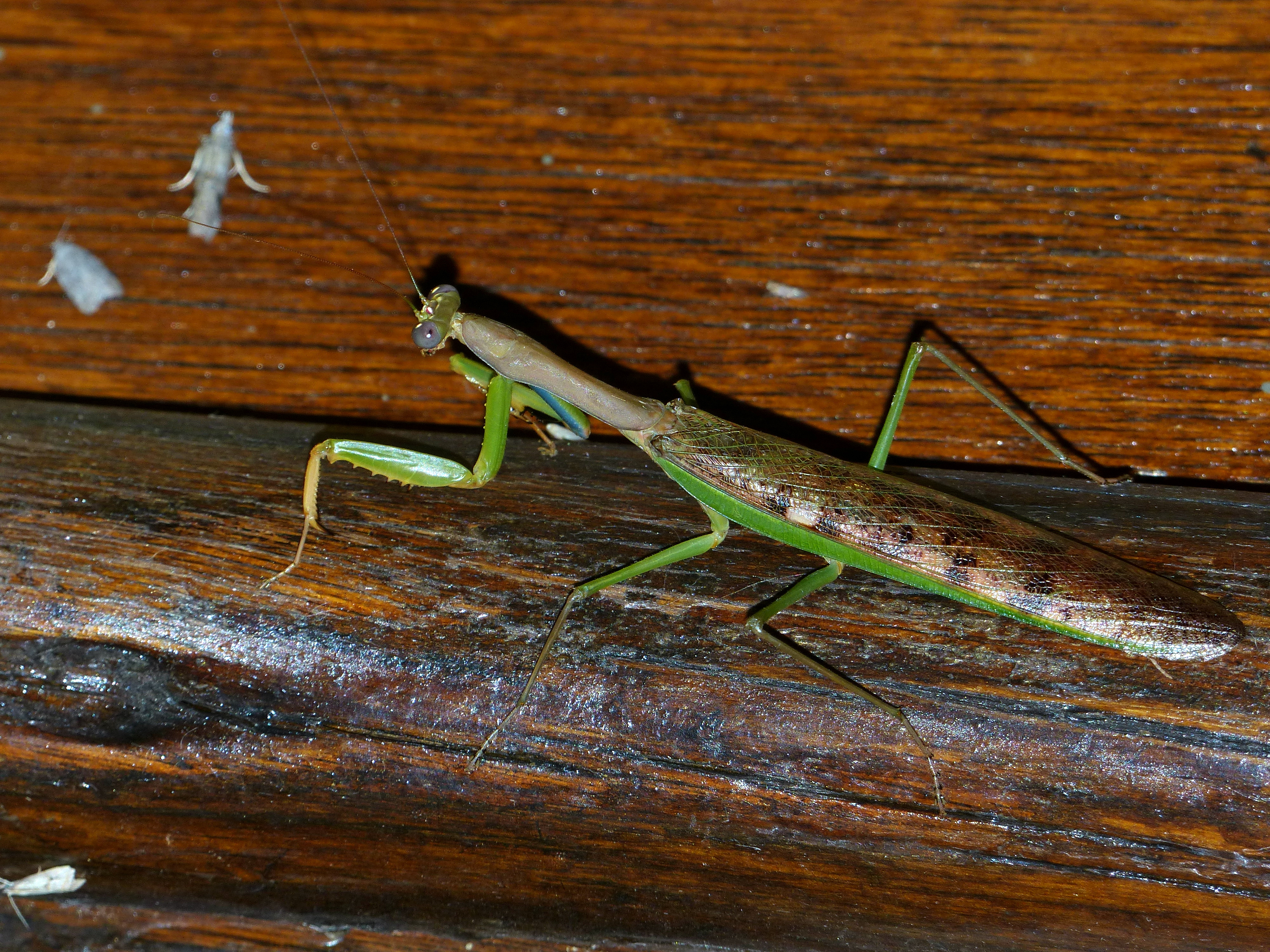 Tent N°27, Tamboti Tented Camp, Kruger NP, SOUTH AFRICA